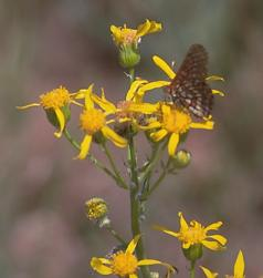 Packera layneae (Layne's butterweed), with a butterfly. Photograph taken in the Pine Hill Preserve in El Dorado County, California.